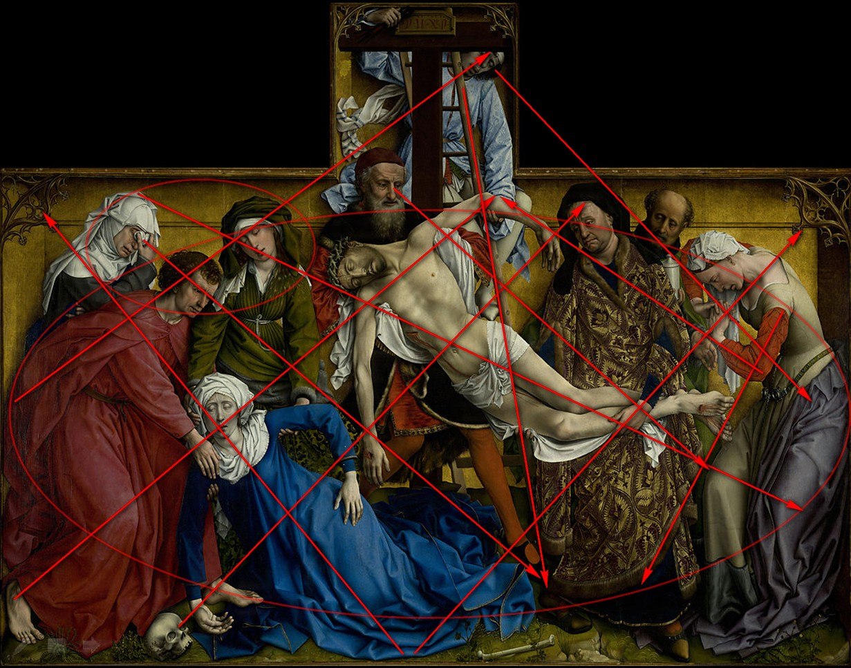 Lines of escape, sculptural modeling and groups of color in The Descent, work of Rogier van der Weyden, in the Prado.